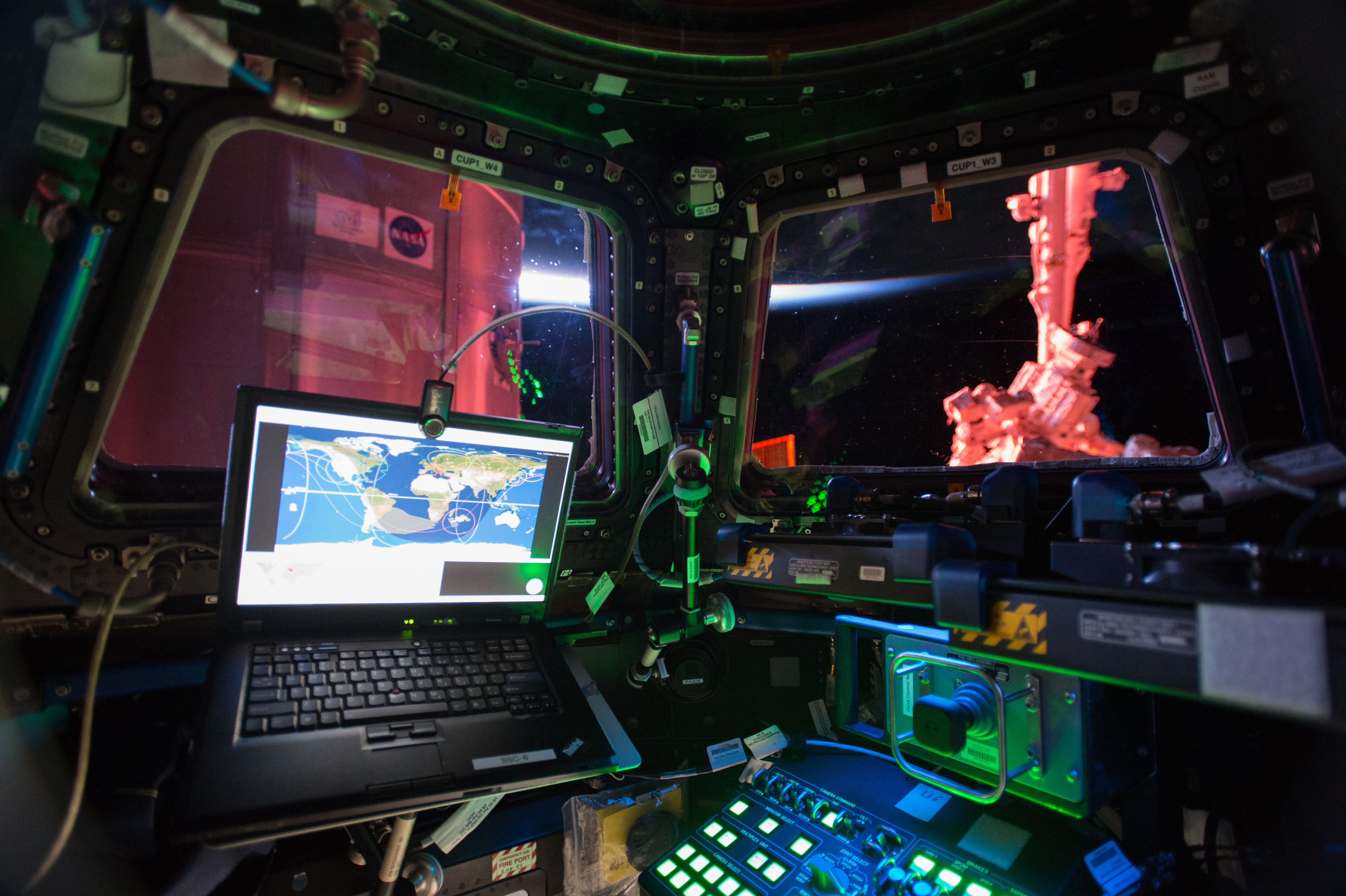 An interior view from the International Space Station's (ISS) Cupola module. A Windows XP running laptop shows the Space Station's orbital location position in a live tracker. The large bay windows allowing the Expedition 42 crew to see outside. The Cupola houses one of the station's two robotic work stations used by astronauts to manipulate the large robotic arm seen through the right window. The robotic arm, or Canadarm2, was used throughout the construction of the ISS and is still used to grapple visiting cargo vehicles and assist astronauts during spacewalks. The Cupola is attached to the nadir side of the space station and also gives a full panoramic view of the Earth.